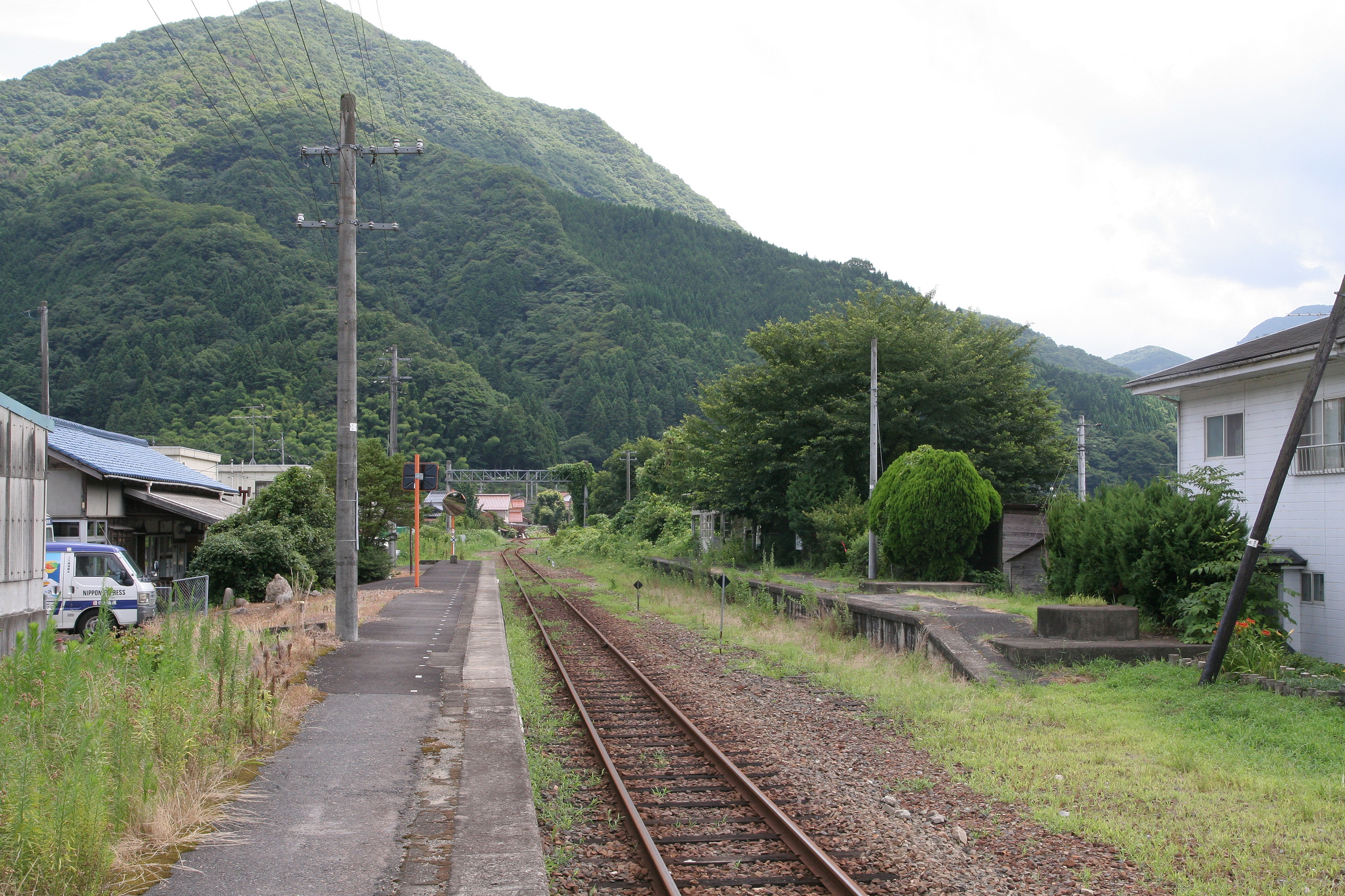 West Japan Railway, Sankō Line, Inbara Station enclosure.